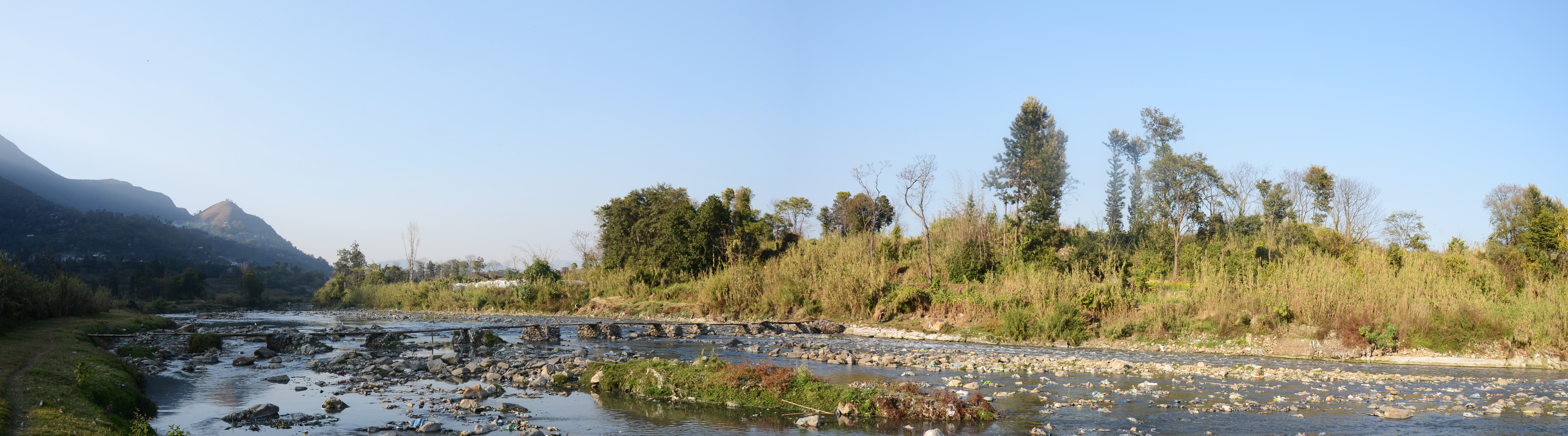 View of Bagmati river from Chalnakhel